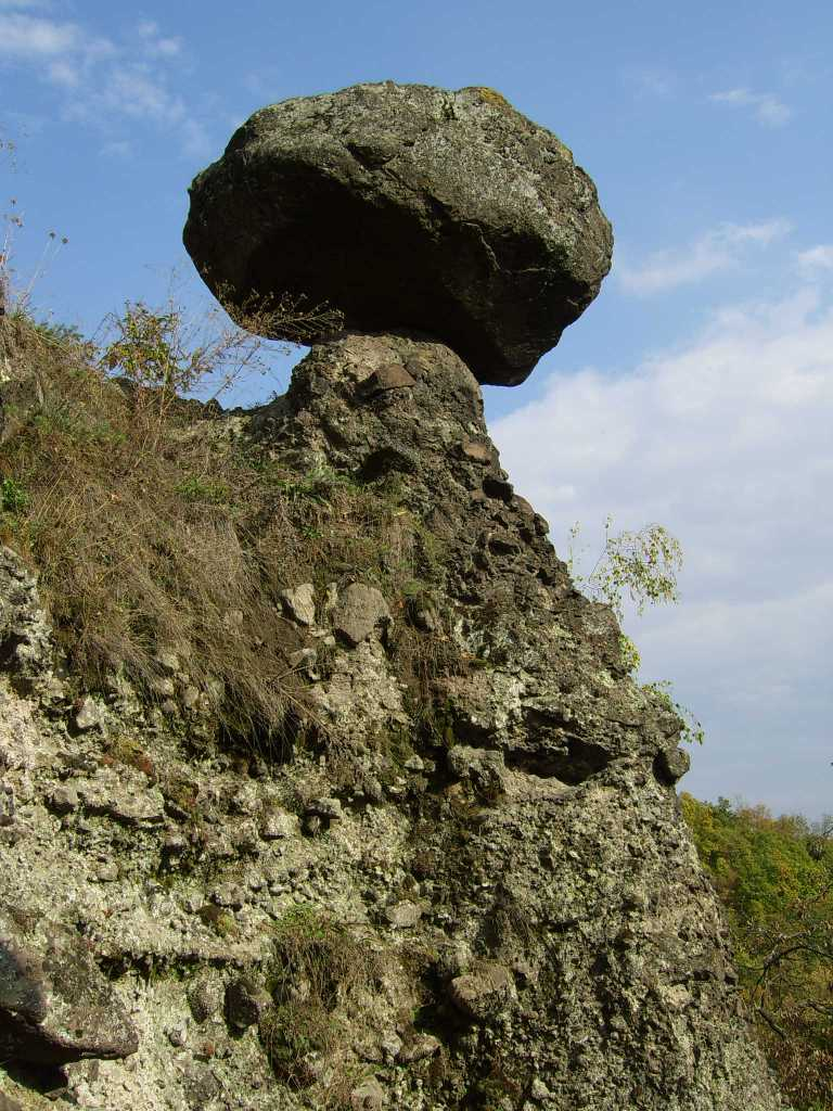 The mushroom stone: cap (andesite volcanic bomb) and stem (volcanic breccia). National Nature Reserve (Národná prírodná rezervácia; NPR) Boky; Slovakia